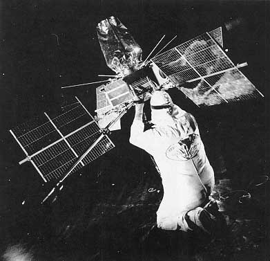 Explorer 33, IMP-D (Interplanetary Monitoring Platform), AIMP-1 (Anchored Interplanetary Monitoring Platform)